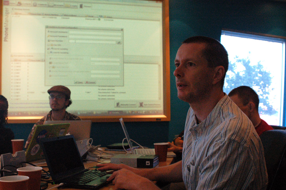 Ken Banks during the demo of FrontlineSMS in 2009